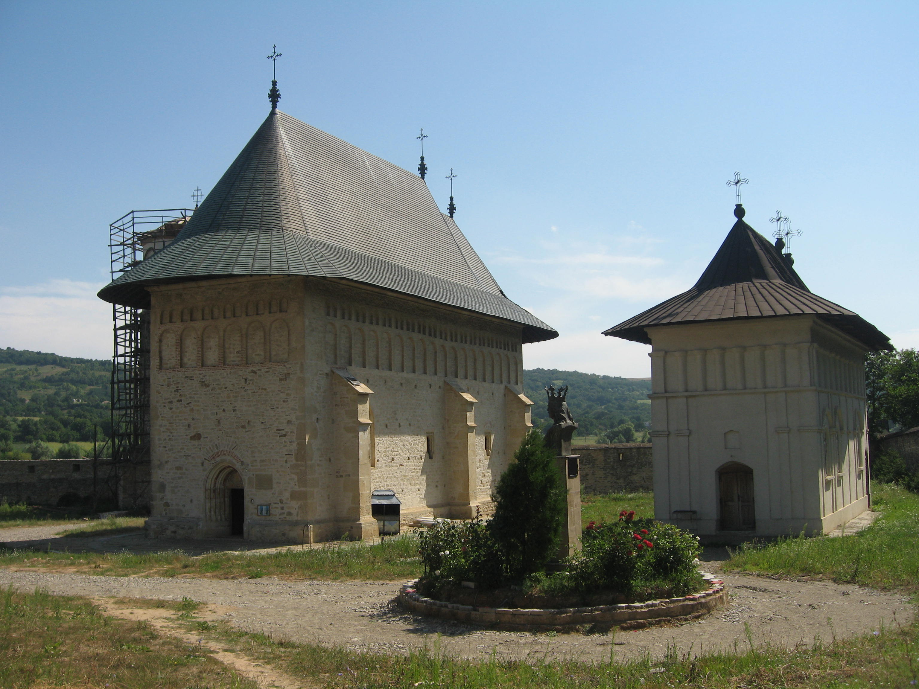 Mănăstirea Dobrovăţ